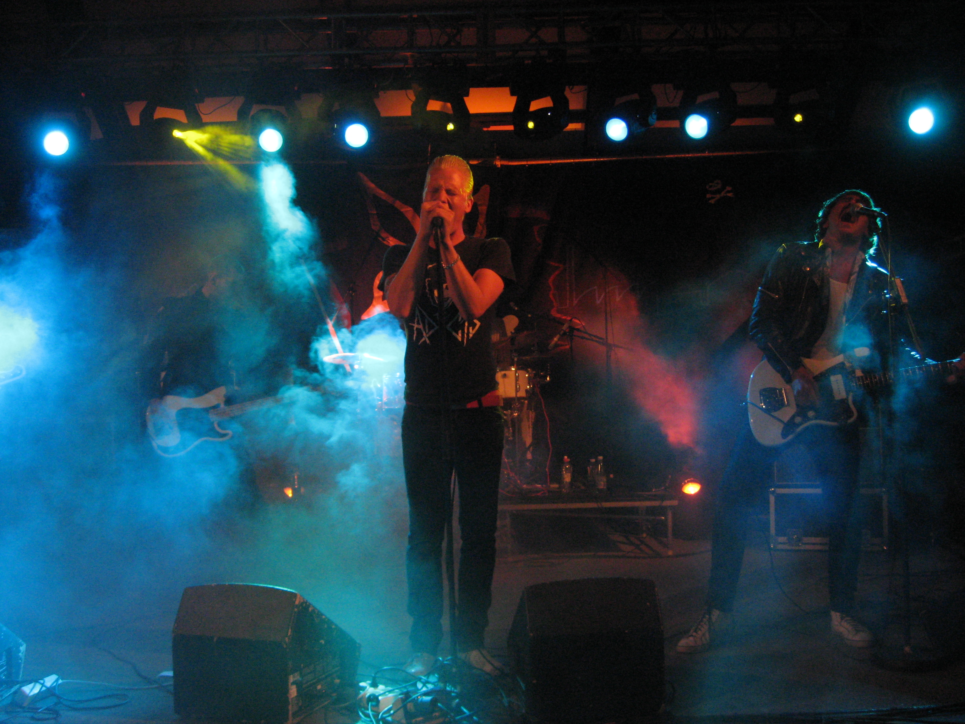 Bruket performing at Pretzeltown 2010